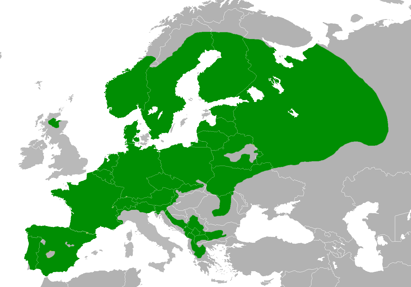 Crested Tit (Lophophanes cristatus) distribution map